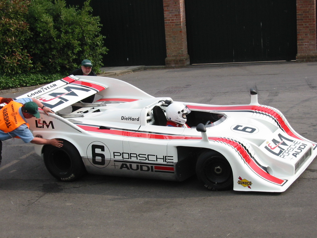 a Porsche 917-10K at 2001 Goodwood Festival of Speed